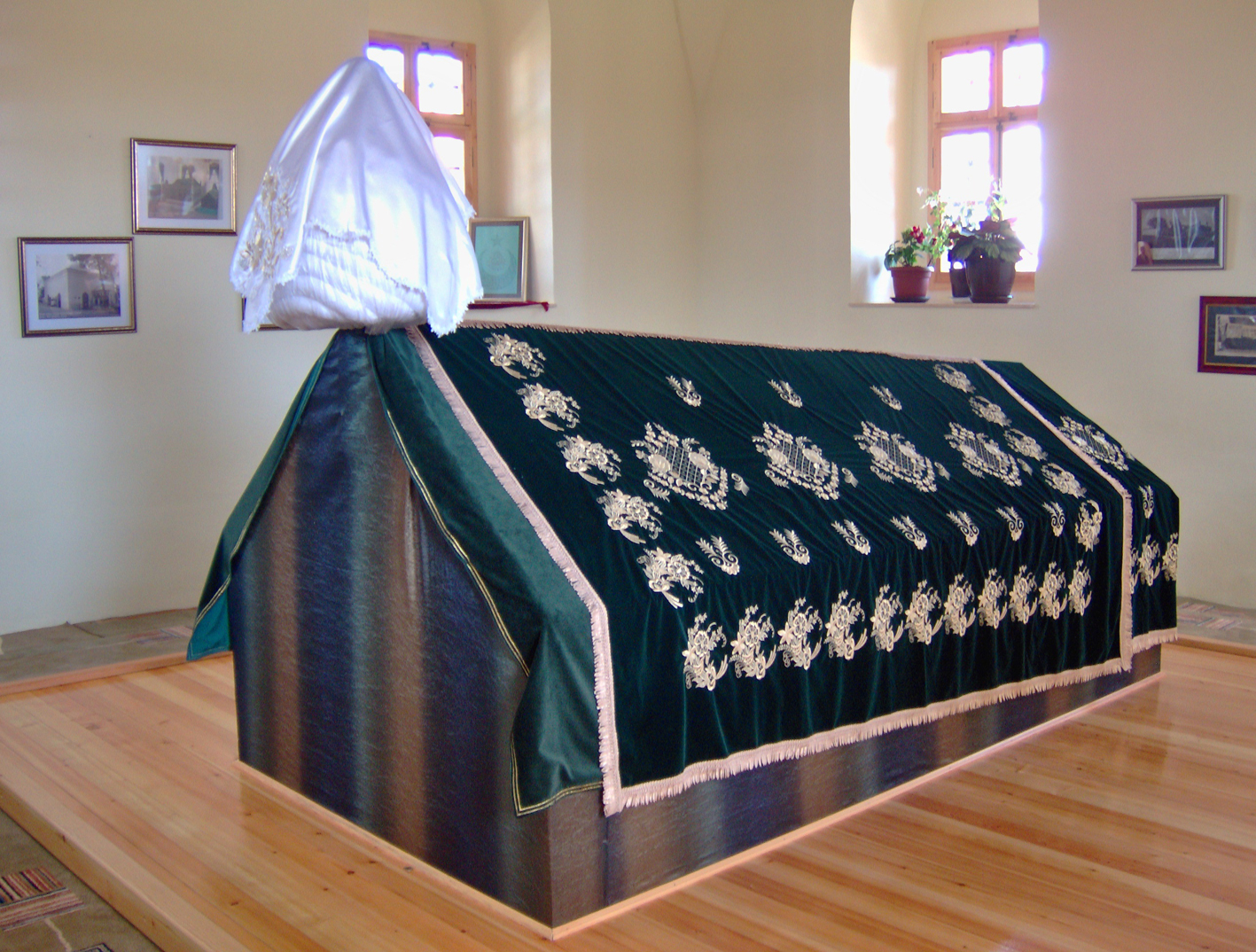 Interior Tomb of Sultan Murad Khan I (Meşhed-i Hüdavendigâr): In 1389 where the Battle of Kosova I had began, this tomb established by Sultan Yıldırım Bayezid for his father great Turkish khan Sultan Murad Khan I. Sultan Murad Khan I was martyred here and his internal organs are buried here. (Kosovo - Pristina Surroundings) 2006